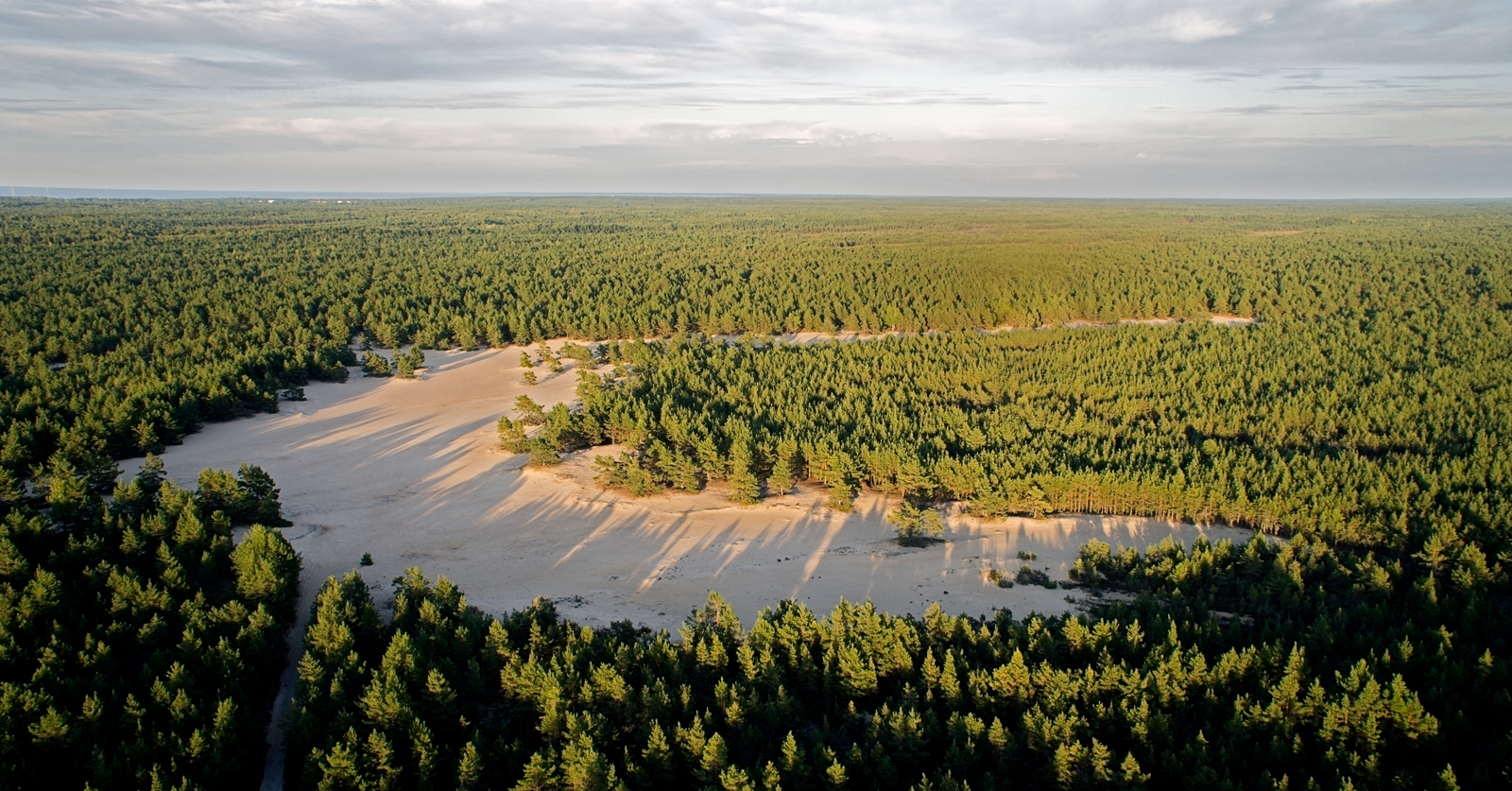 Kaibaldi nõmm